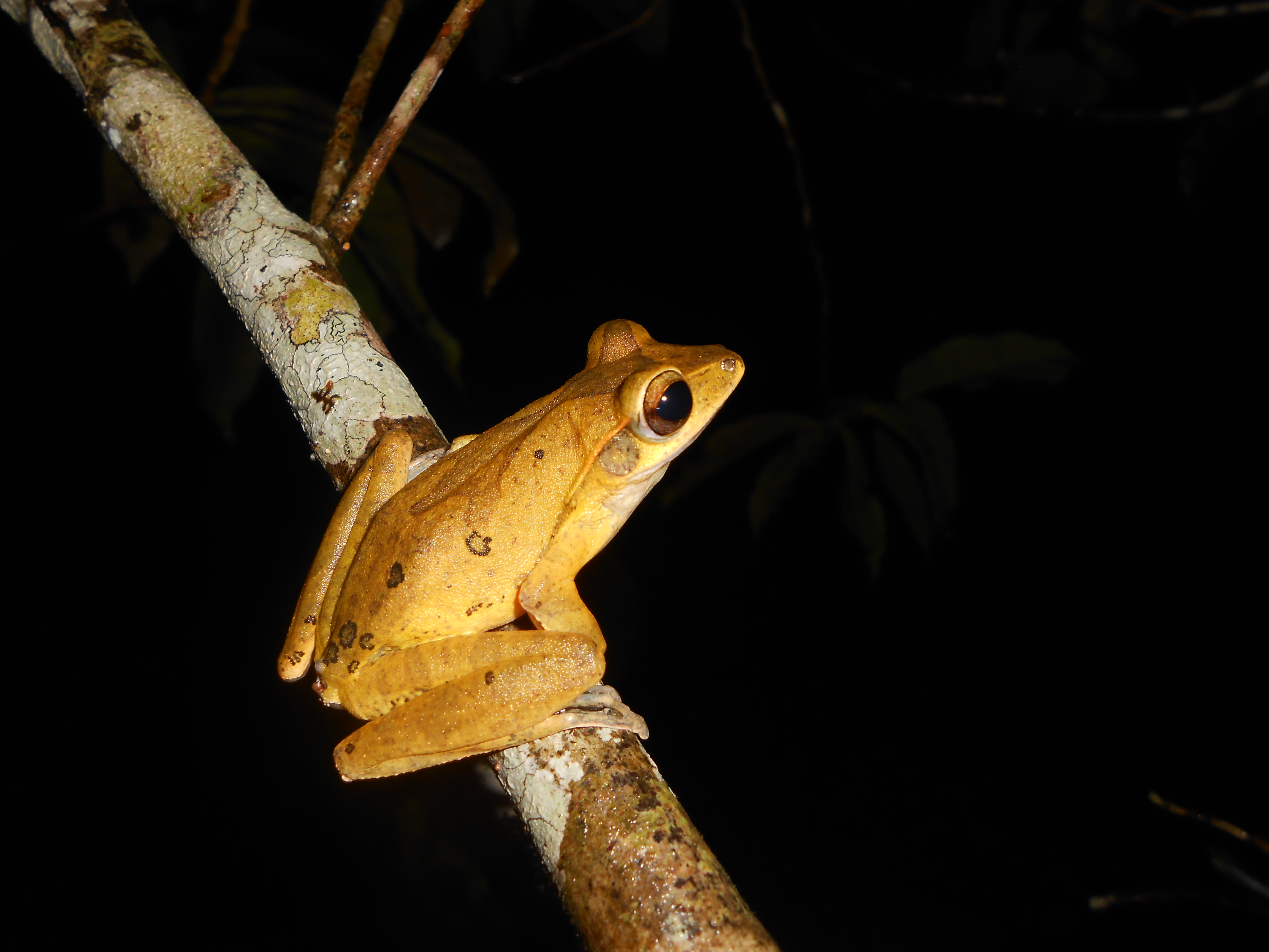 A male psuedocruciger from Western Ghats, Karnataka